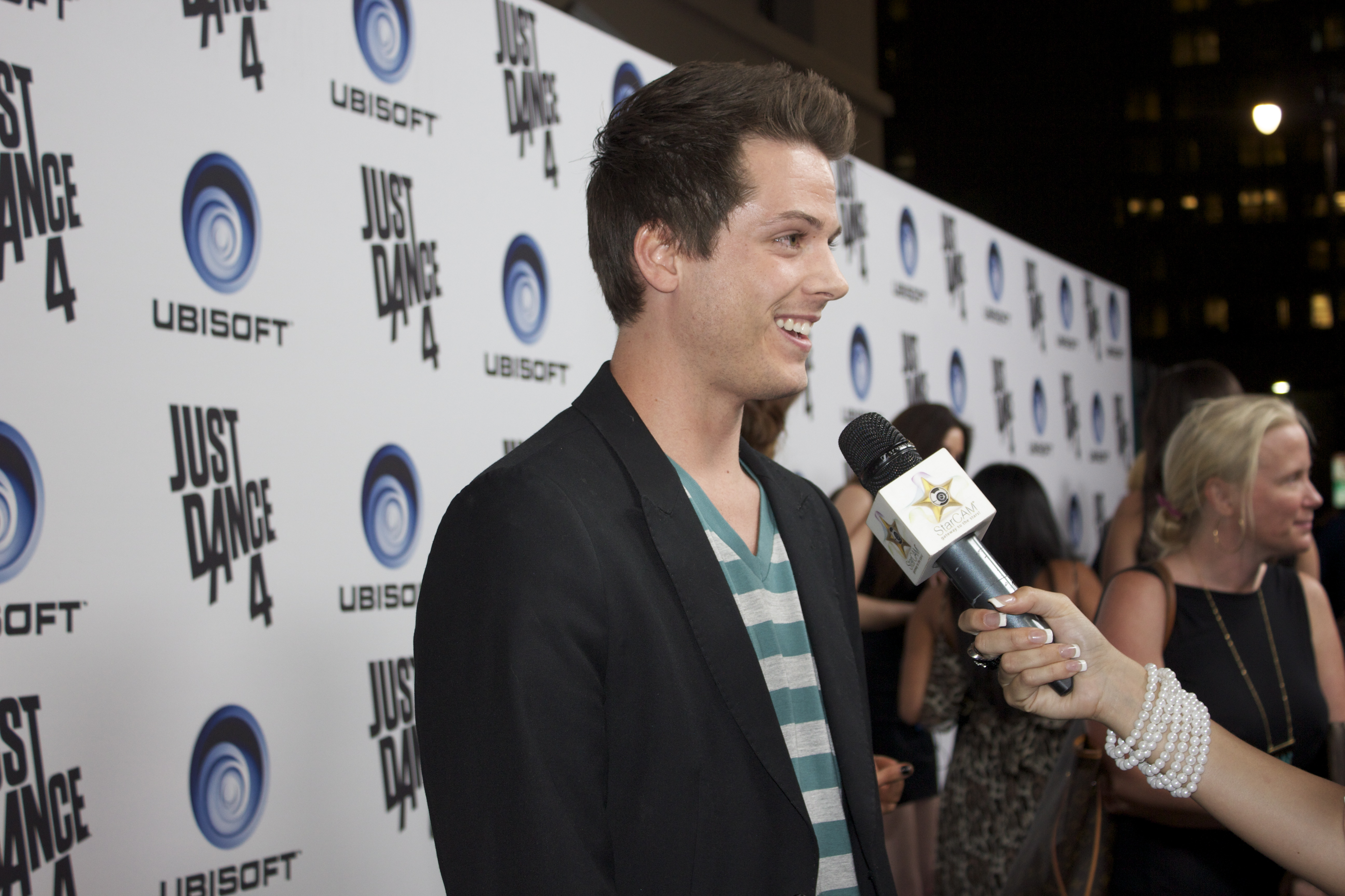 Drew Osborne (Criminal Minds) celebrates the release of "Just Dance 4." (Michelle Tiu / Neon Tommy)